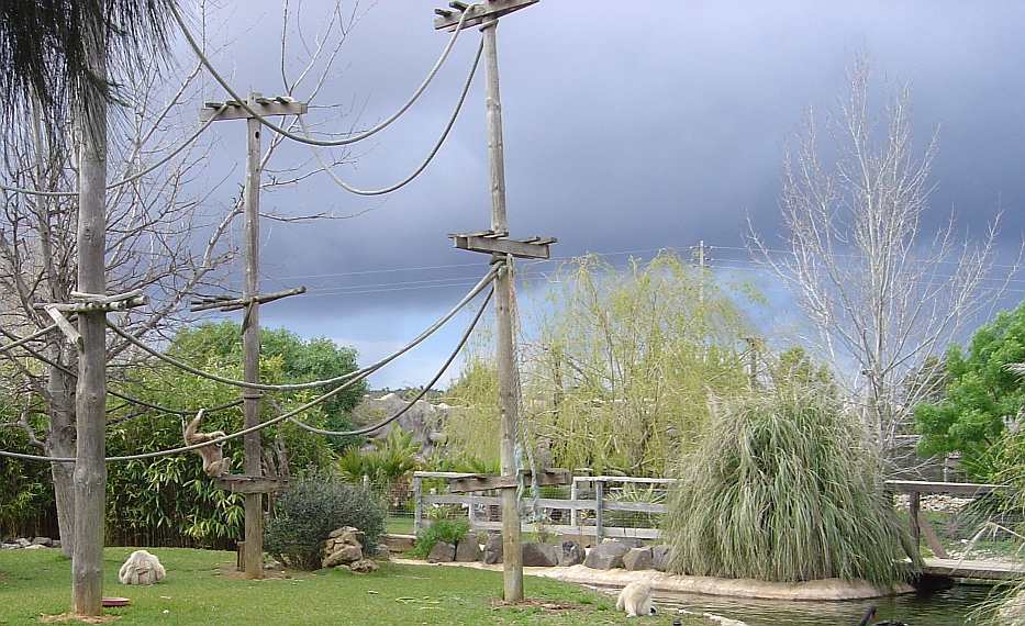 Lagos Zoo, Barão de São João, Lagos, Portugal